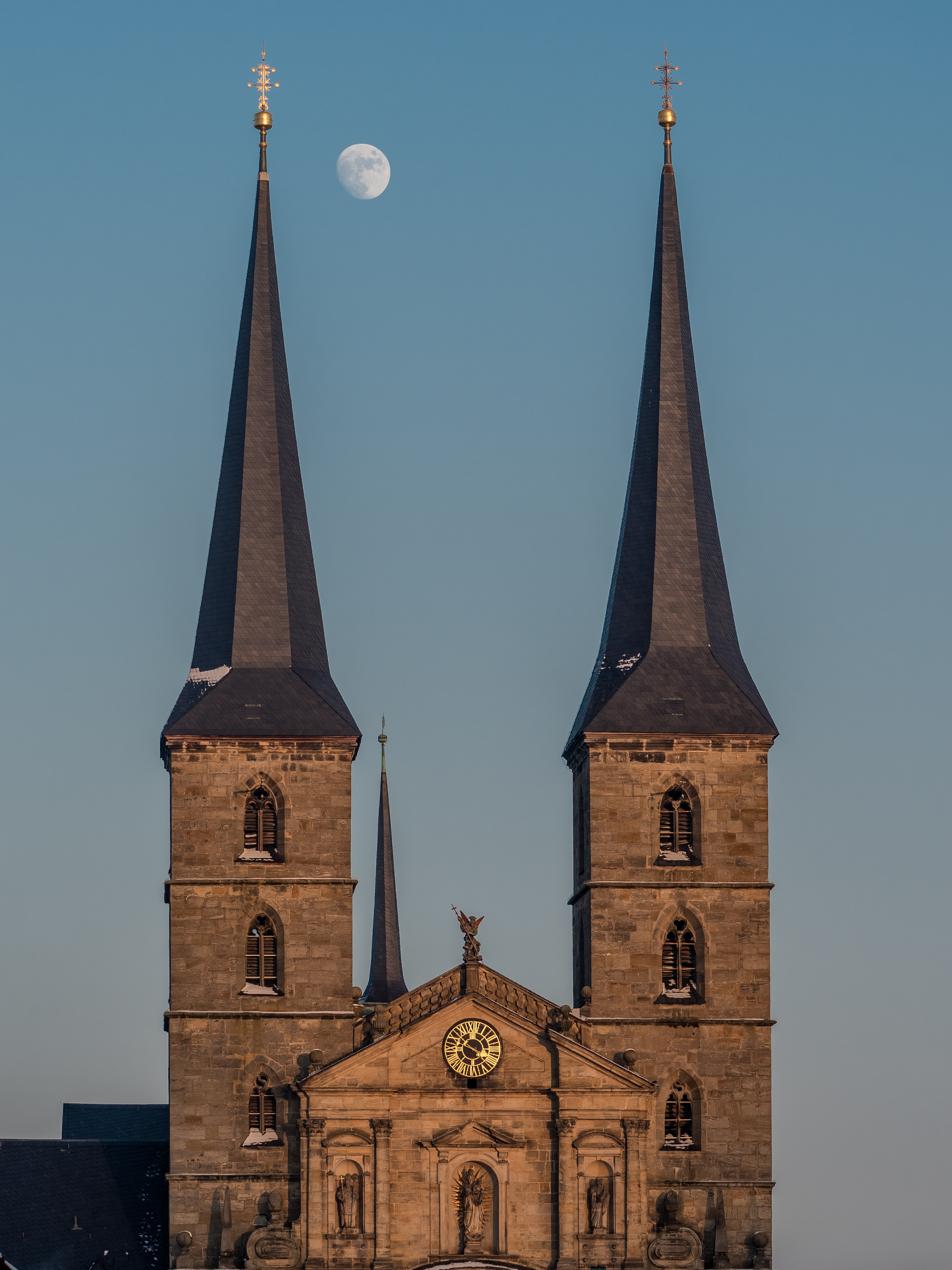 Towers of the former Benedictine Abbey of St. Michael in Bamberg